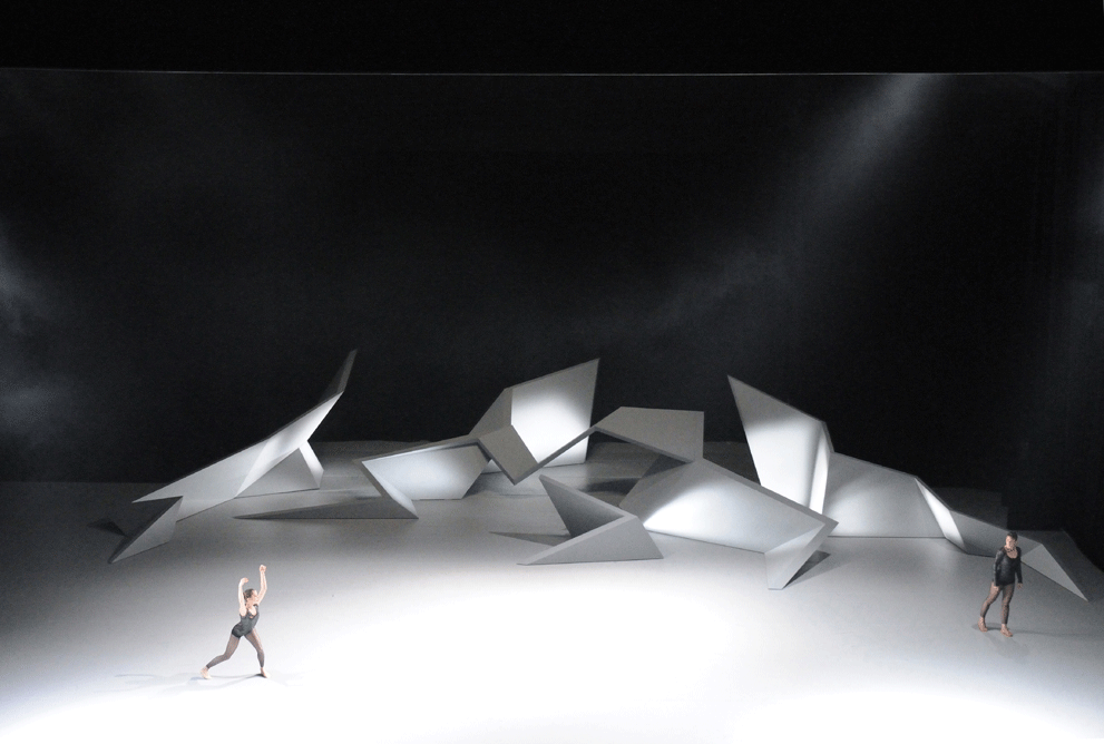 lyon